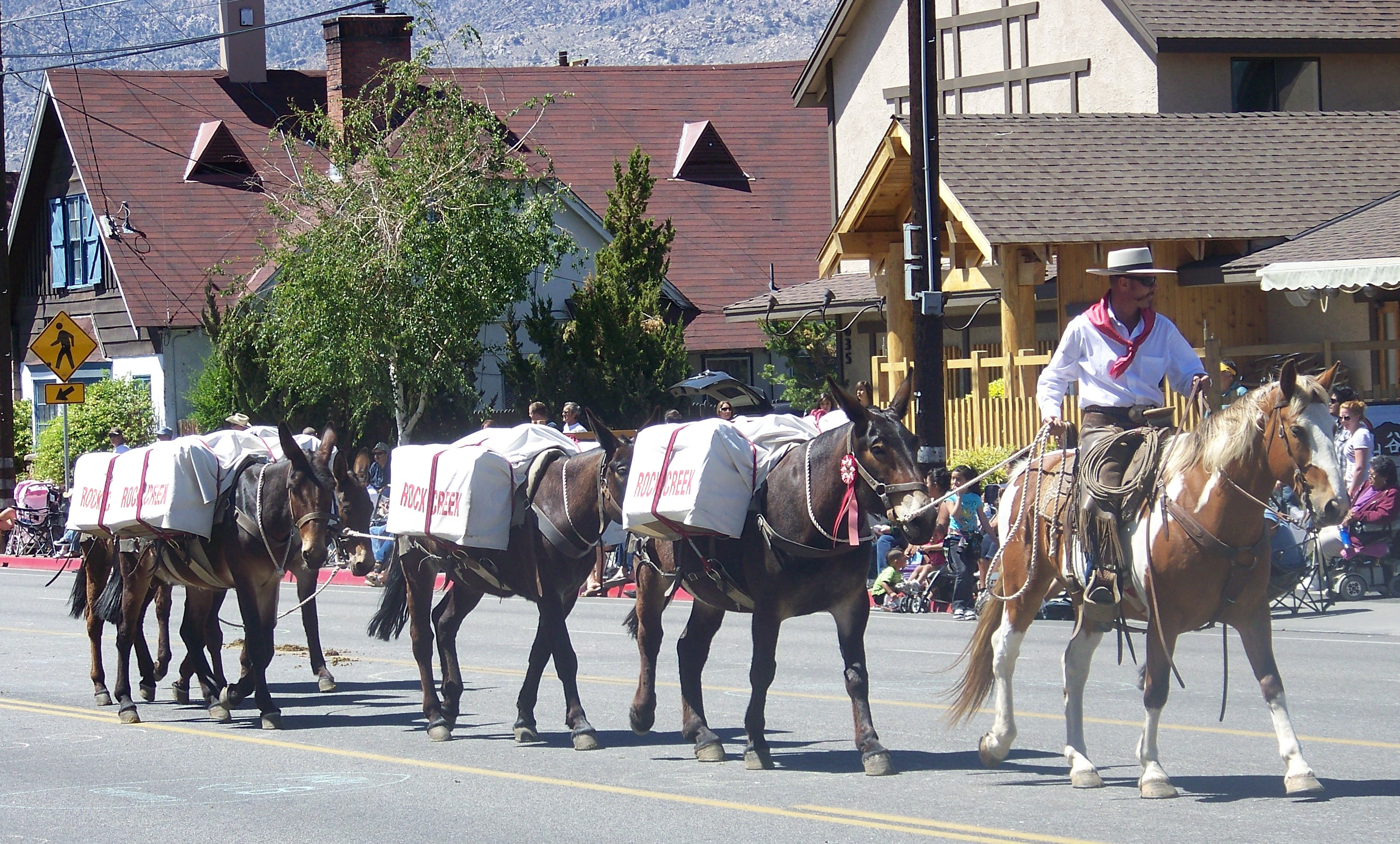 A photo of a mule pack string operated by the Rock Creek Pack Station participating in the Bishop Mule Days parade.